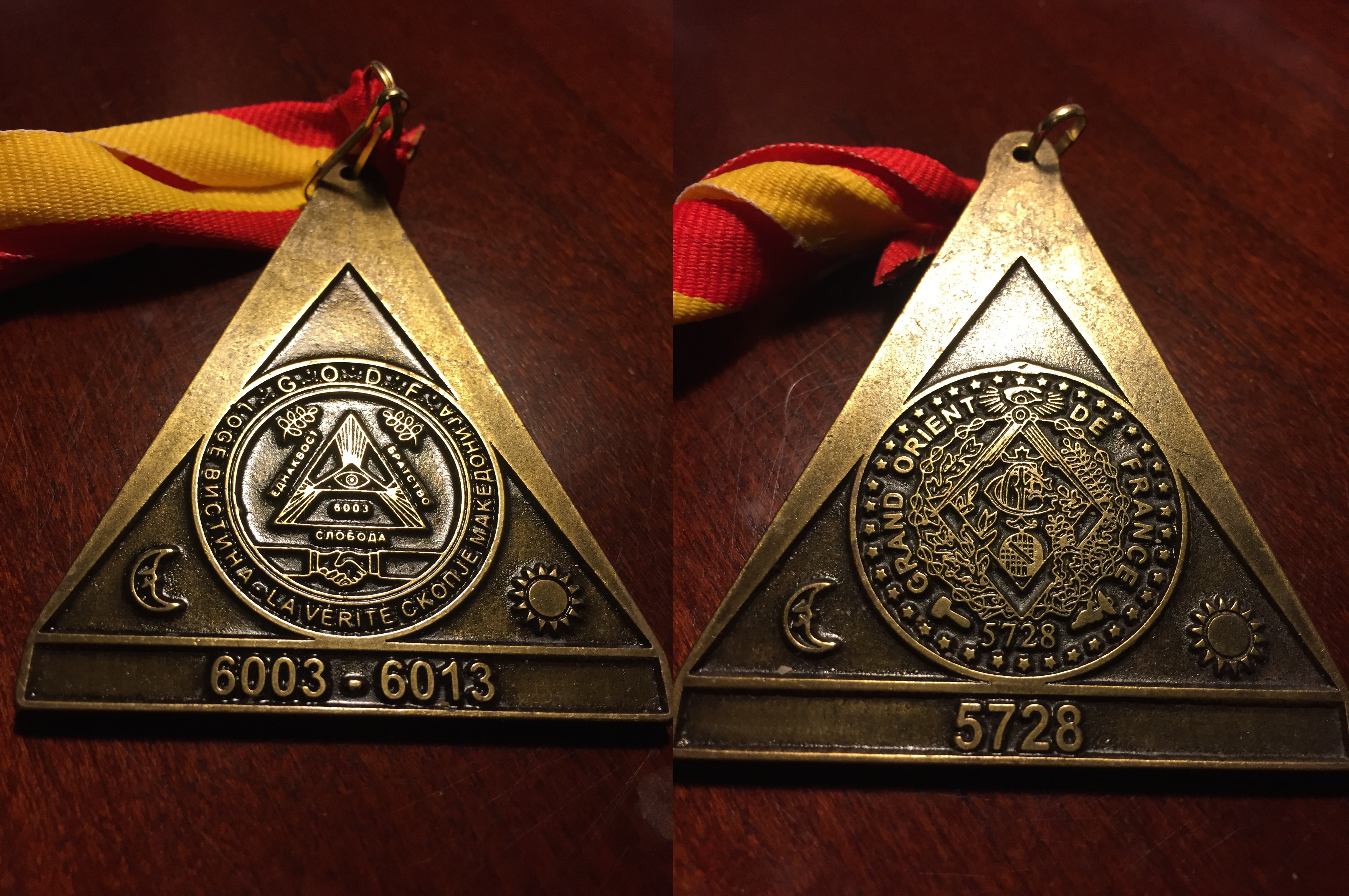 A masonic medallion issued by the Masonic Lodge "Vistina - La Verite" in Skopje, the Republic of Macedonia. On the front side is the logo of the "Vistina - La Verite" lodge, and reverse side of the medallion depicts the logo of the Grand Orient of France.